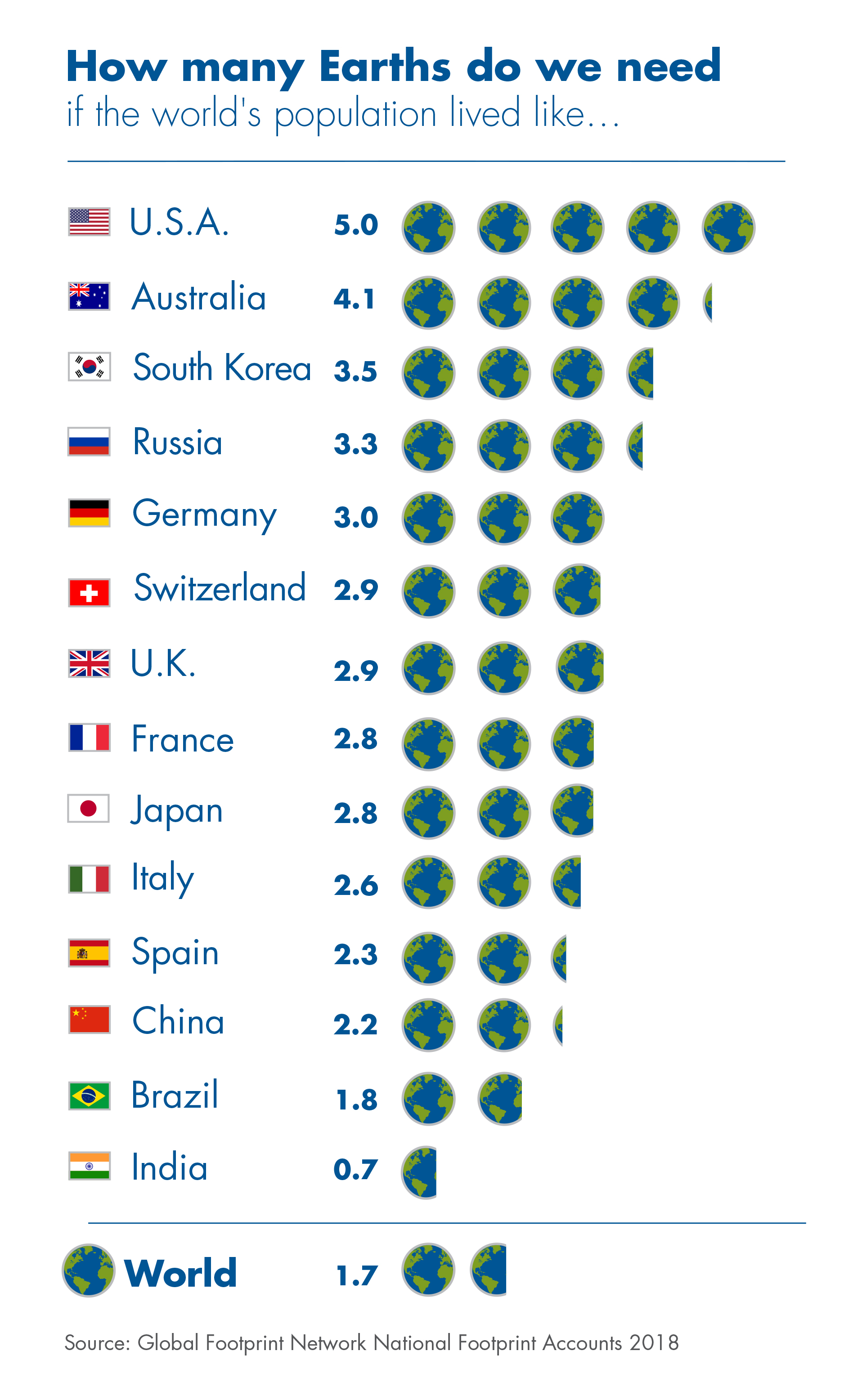 How many Earths do we need if the world's population lived like...